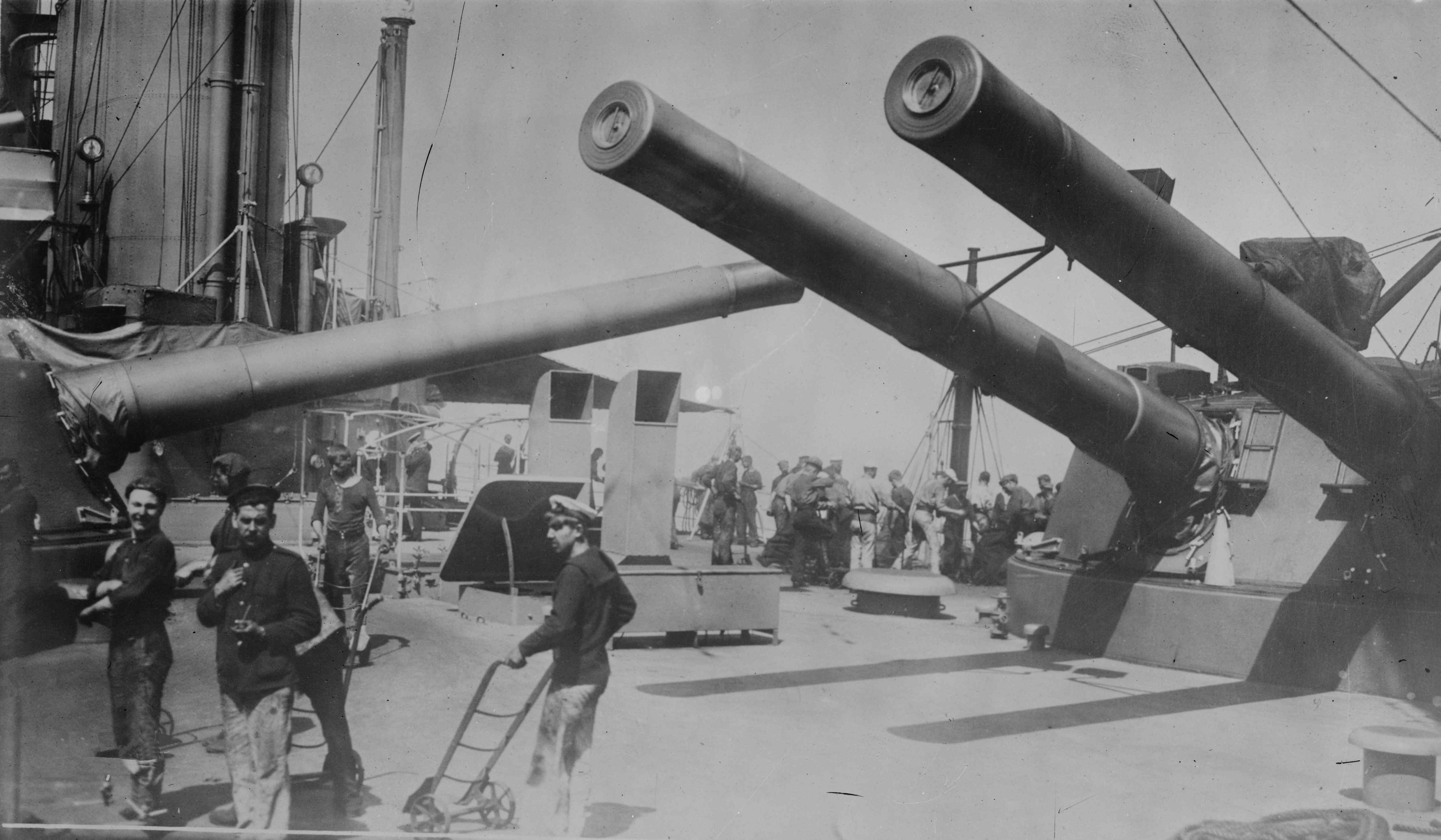 12 inch Guns on HMS Indomitable, dreadnought battle cruiser. View taken from base of aft shelter deck looking forward at P and Q turrets midships, while coaling ship.